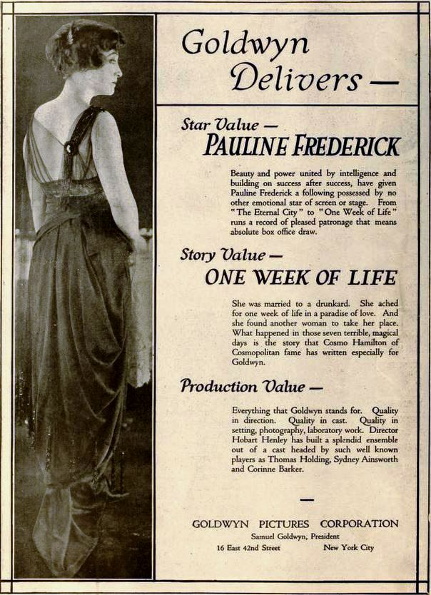 Ad for the American film One Week of Life (1919) with Pauline Frederick, on page 466 of the April 26, 1919 Moving Picture World.